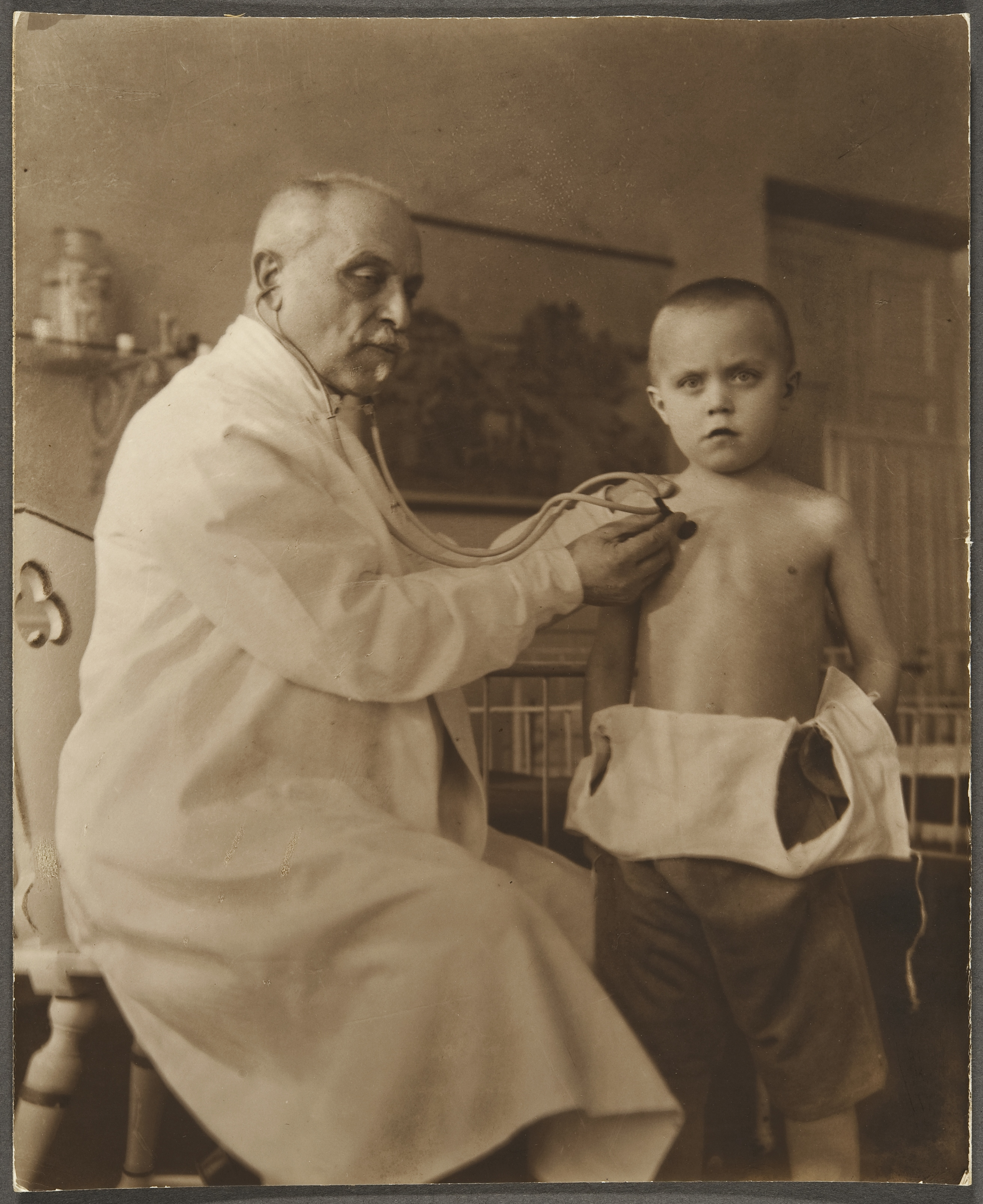 Photograph of the Finnish pediatrician Wilhelm Pipping (1854–1926) examining a young patient.